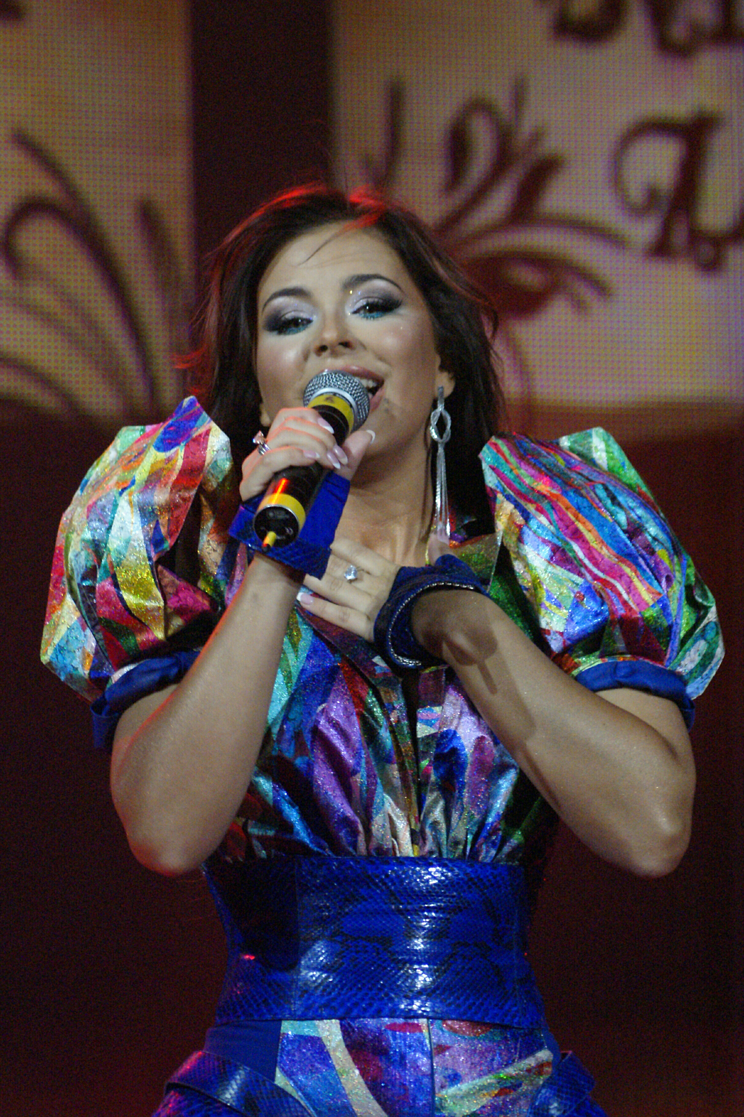 Ani Lorak at an ESC 2009 Party on May 9, 2009